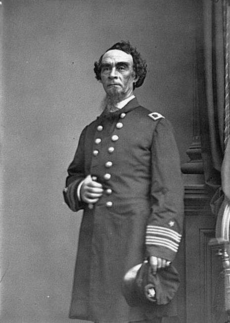 Title: Portrait of Capt. Henry Walke, officer of the Federal Navy Abstract: Selected Civil War photographs, 1861-1865 (Library of Congress) Physical description: 1 negative